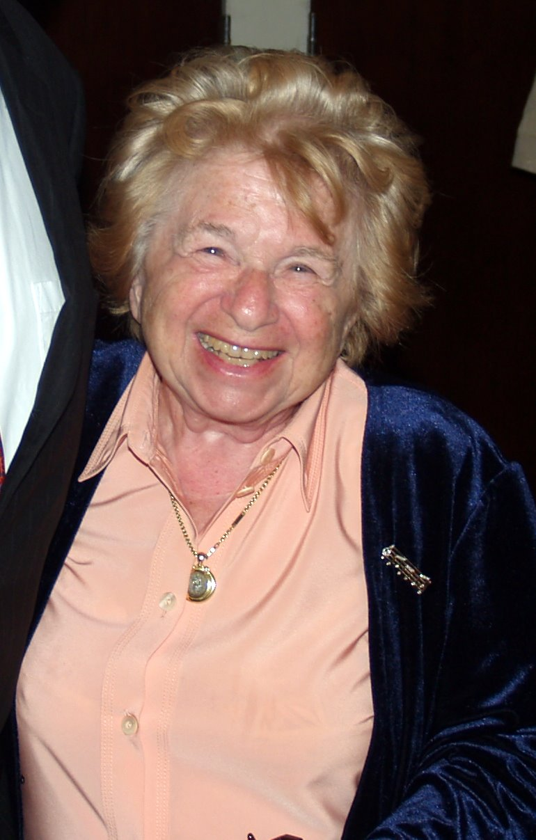 Dr. Ruth Westheimer at New York City's Apollo Theater in Harlem, for the 60th Anniversary celebration of Israel and its ties with the African-American community.